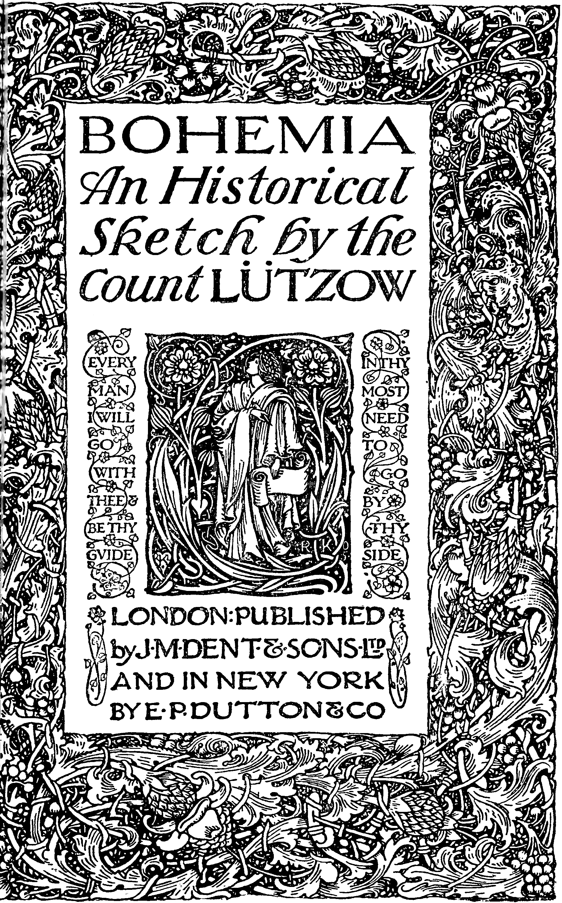 Title page of Bohemia, An Historical Sketch by the Count Lützow. 1920 edition.